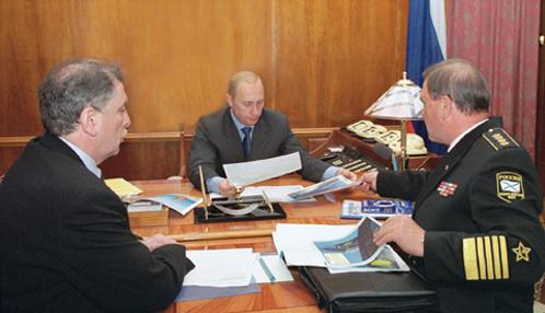 THE KREMLIN, MOSCOW. President Vladimir Putin met with Deputy Prime Minister Ilya Klebanov and Navy Commander-in-Chief Vladimir Kuroyedov.